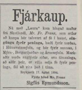 Advertisment in Icelandic Periodic Þjóðólfur in 1894 telling sheep farmers that sheep farmers saleman will arrive and will pay for livestock in money.